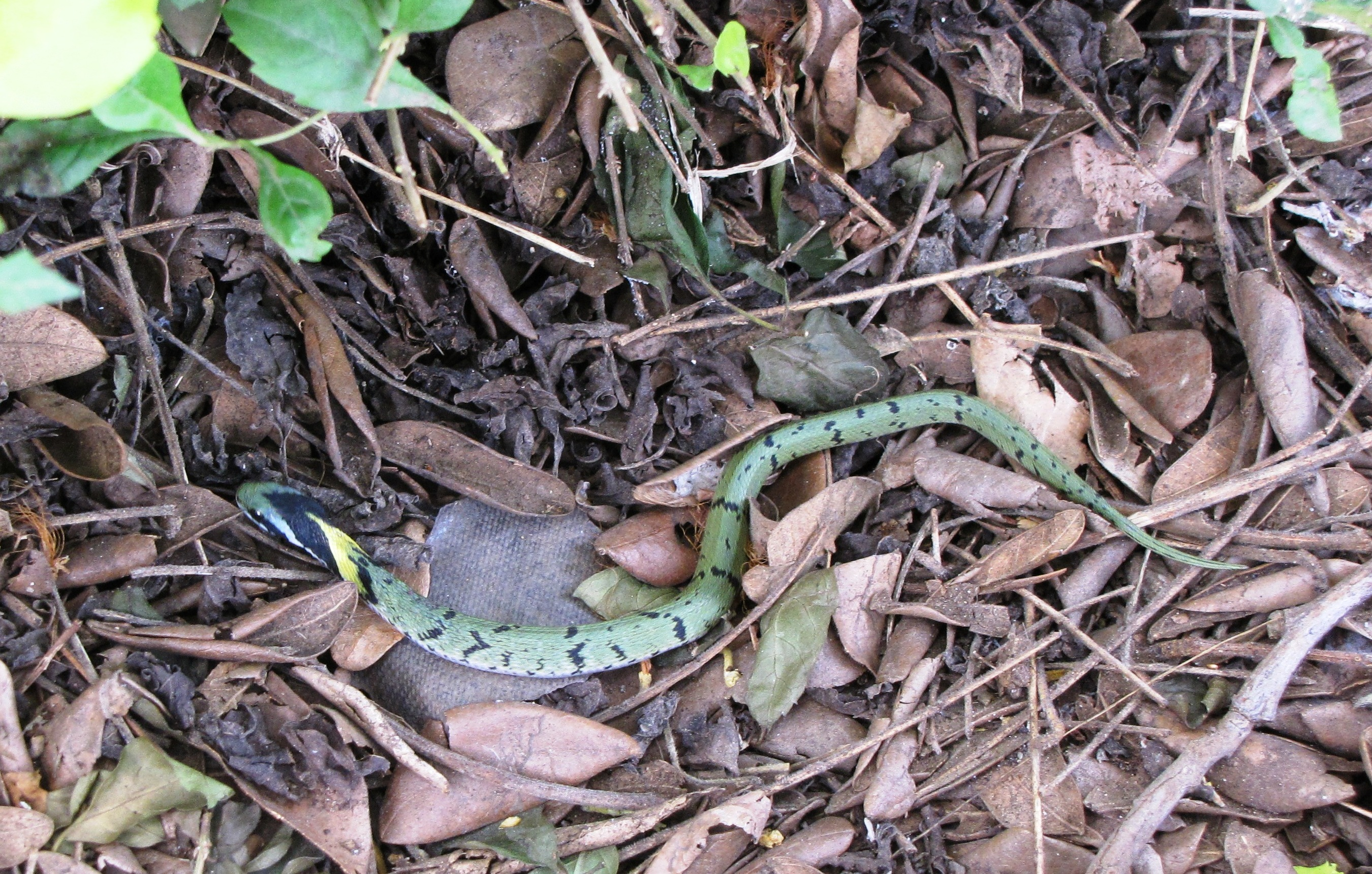 Juvenile Green Keelback, Macropisthodon plumbicolor, (family Colubridae ), seen in Pune, Maharashtra, India